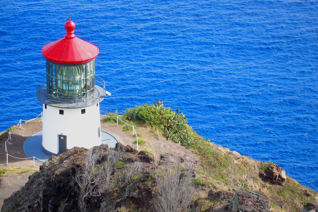 Oahu, Hawaii, USA, Makapu'u Point, lighthouse